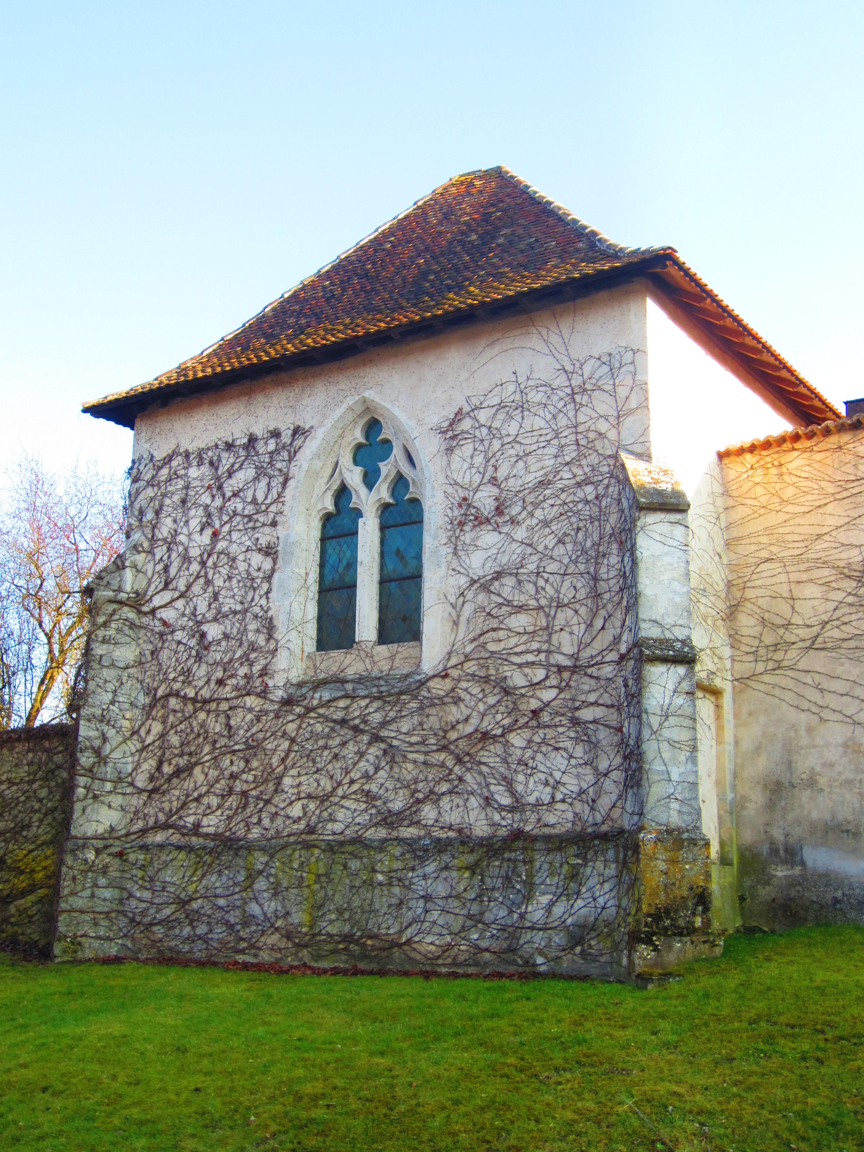 Maidieres chapel